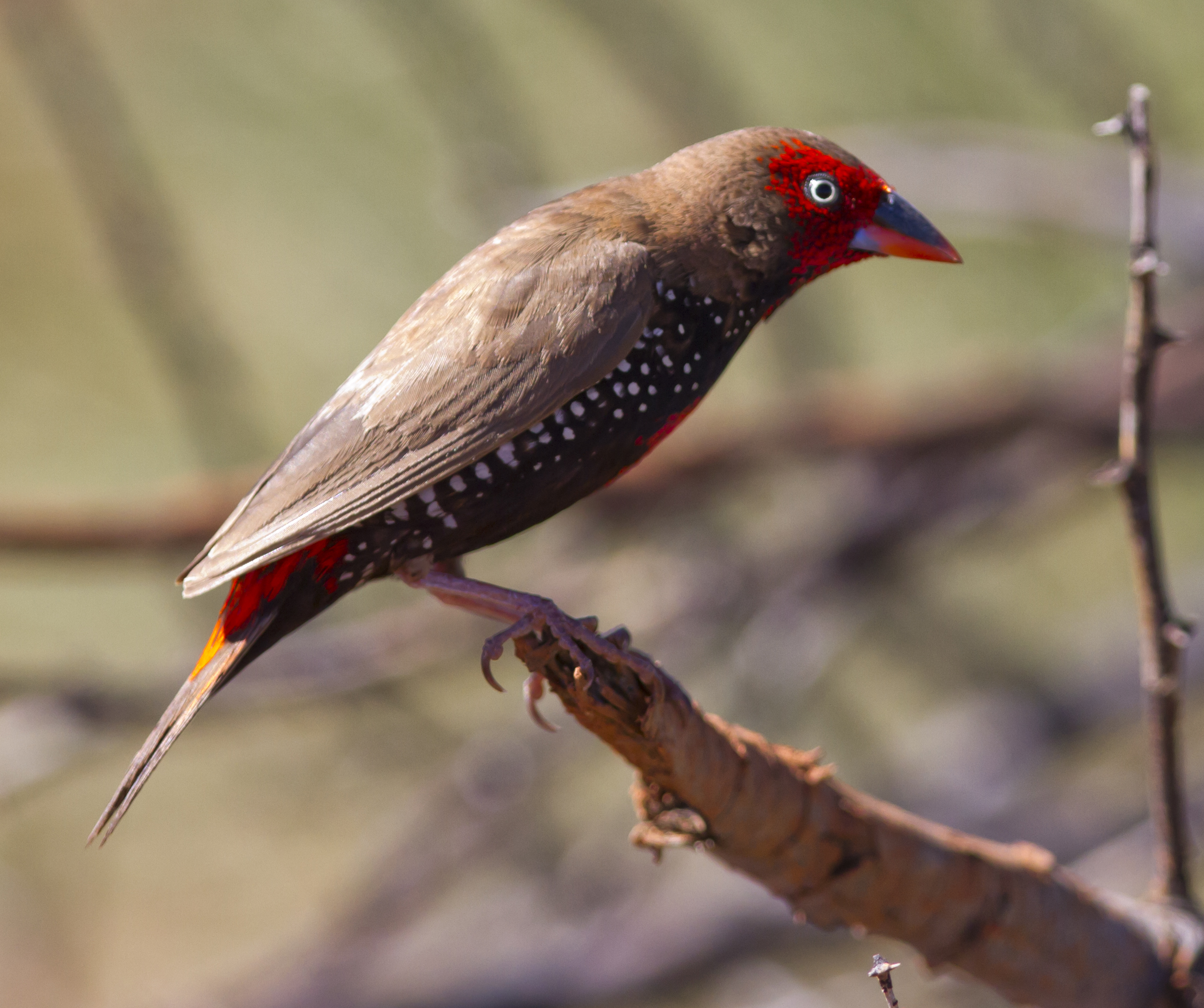 An adult male Painted Finch in Karratha, Pilbara, Western Australia, Australia.